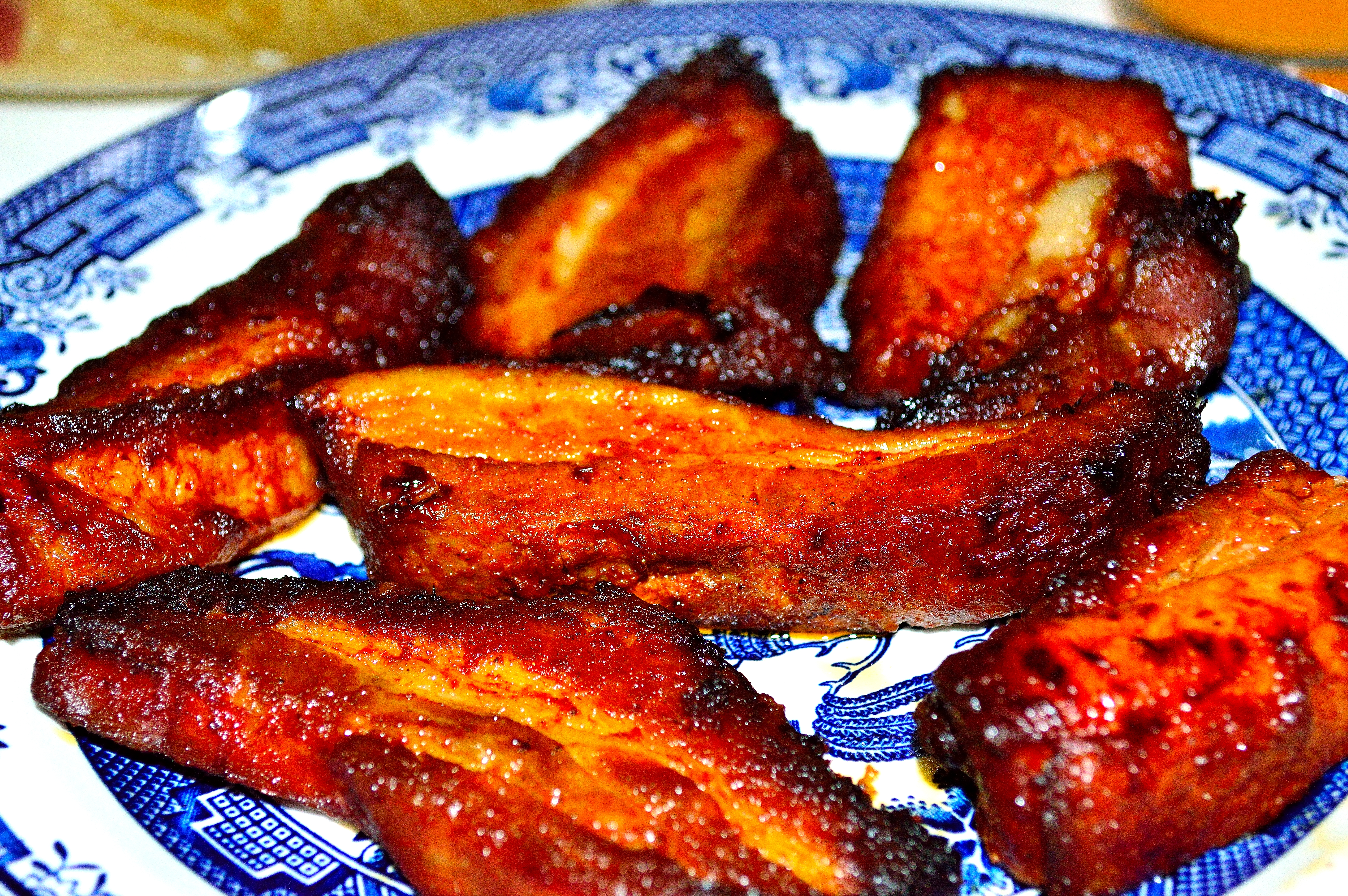 Uncropped and Edited image of a British Roasted Pork Dish. Image Size: L (6016 x 4000), Date Shot: 8/4/2015 18:29:54.40, Time Zone and Date: UTC+5:30, Device: Nikon D3200, Lens: Nikon AF-S DX Zoom-Nikkor 18-55mm f/3.5-5.6G VR, Focal Length: 36mm, Focus Mode: AF-A, AF-Area Mode: Auto, VR: ON, Exposure Mode: Aperture Priority, Exposure Comp.: 0EV, ISO Sensitivity: ISO 400, Flash Device: Built-in Flash, Flash Sync Mode: Front Curtain, Color Space: sRGB, High ISO NR: ON (Normal), Picture Control: [SD] STANDARD, Base: [SD] STANDARD, Edited Using: Nikon ViewNX 2, Photographer and Editor: Viraj Brian Wijesuriya.